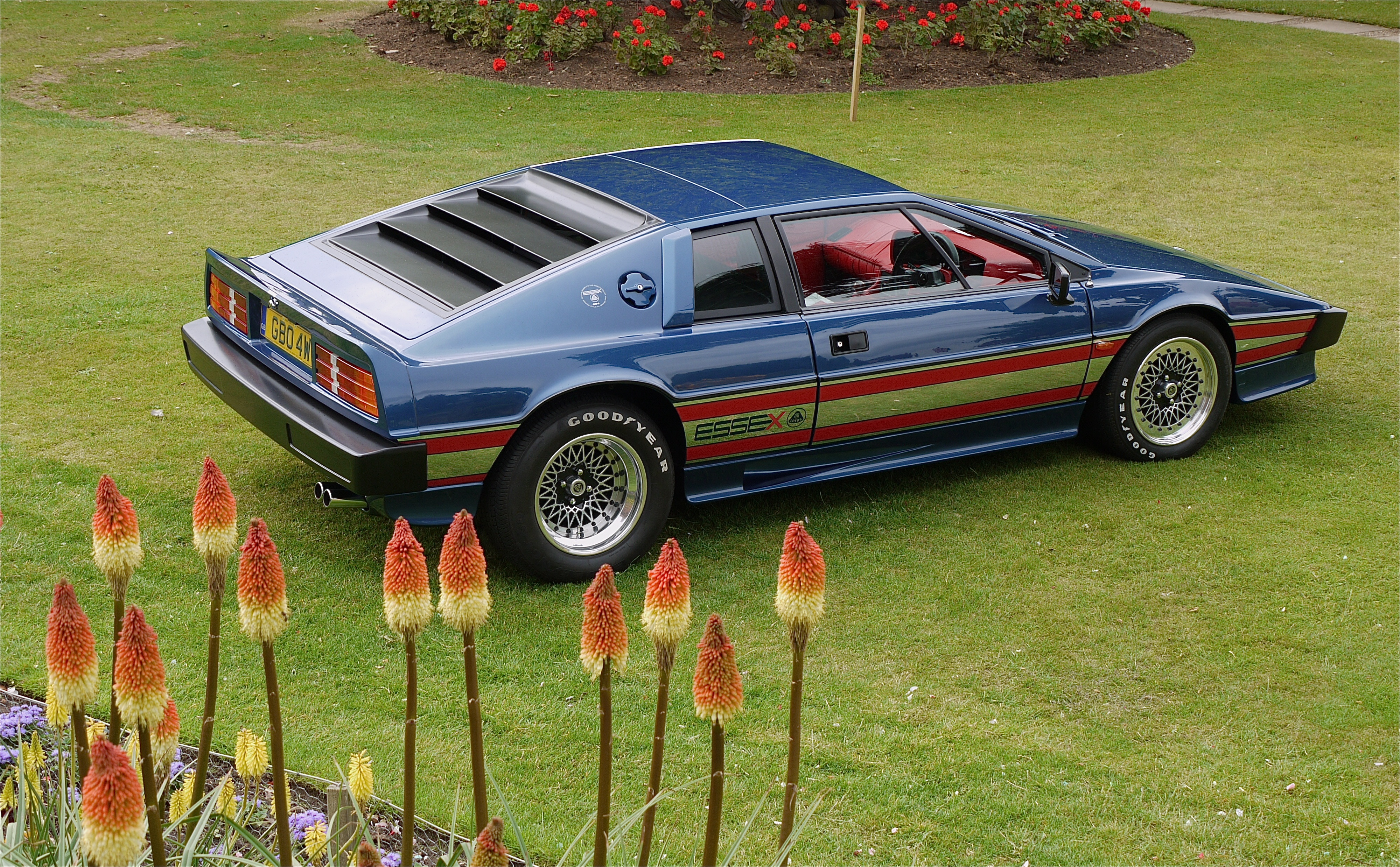 1980 Lotus Esprit Essex Turbo